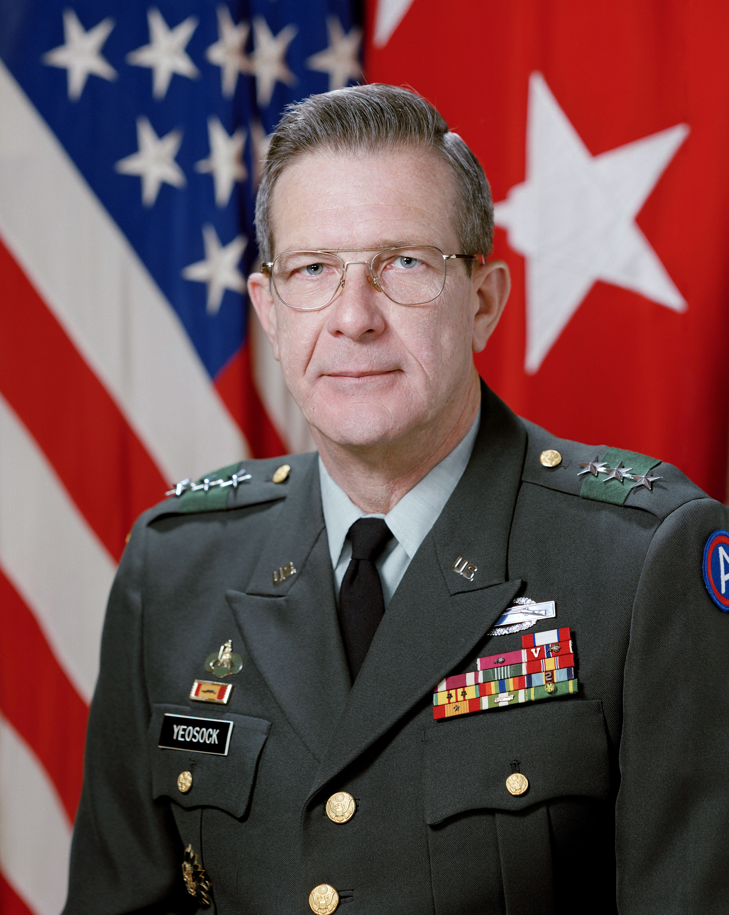 LGEN John J. Yeosock, USA